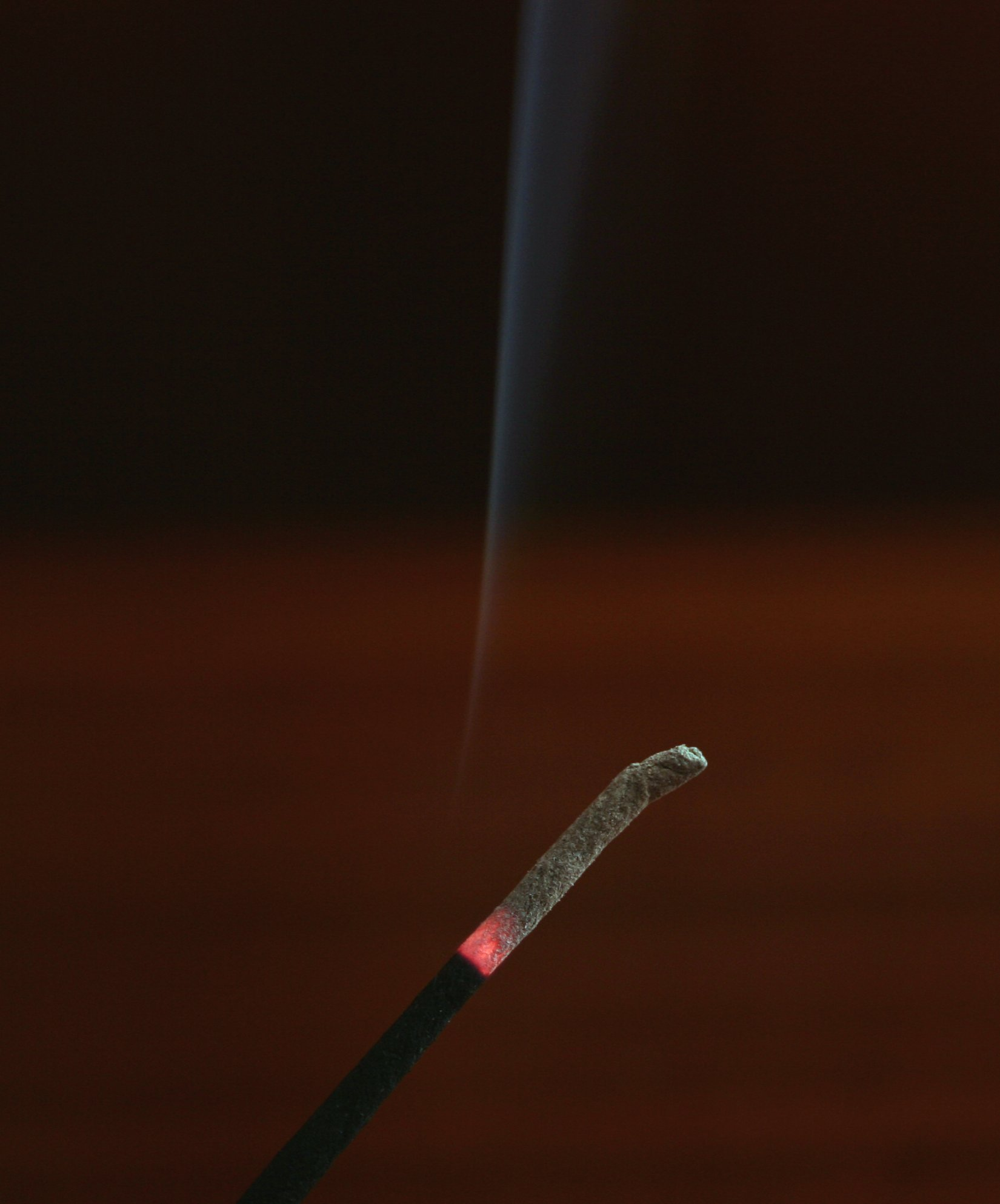 Incense stick